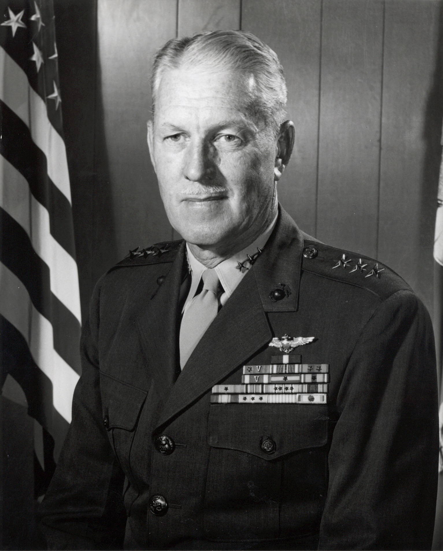 Lieutenant General Richard C. Mangrum, Assistant Commandant of the Marine Corps from 1965 to 1967. A Marine aviator, he was awarded the Navy Cross and the Distinguished Flying Cross for his actions during the Battle of Guadalcanal.